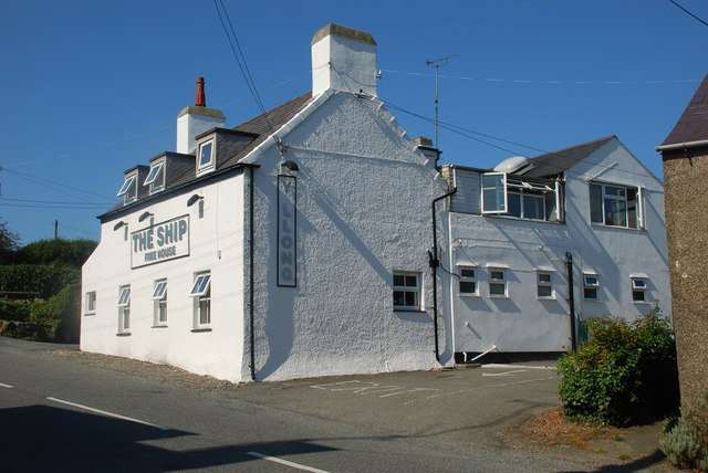 Y Llong ar ei Newydd Wedd - New-look Ship Inn Edern